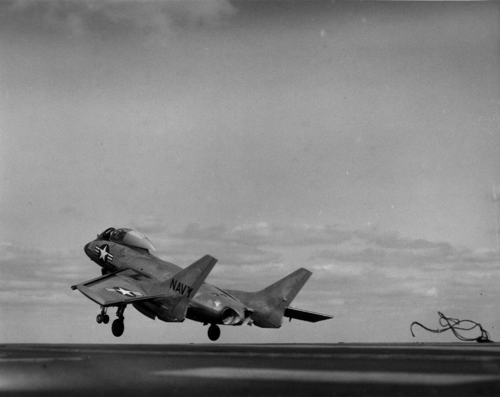 Launch of a U.S. Navy Vought F7U-3 Cutlass during carrier qualifications from the aircraft carrier USS Coral Sea (CVB-43) in November 1952.